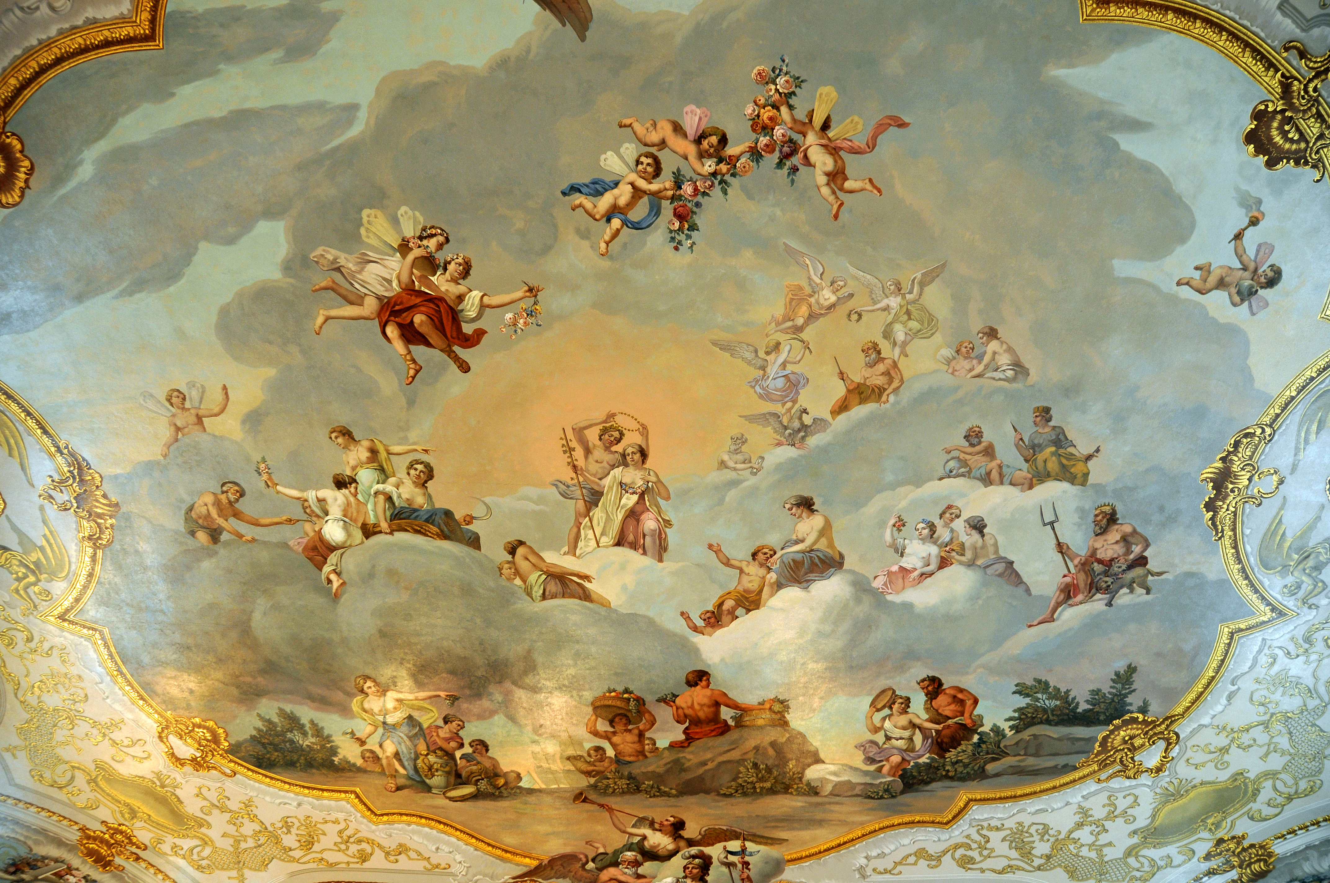 The gorgeous gold and blue architecture of the Catherine Palace is just a taste of this stunning testament to the Tsars' wealth. Also known as the Summer Palace or Tsarskoe Selo (Village of the Tsars), the Catherine Palace is one of the most popular places to visit in St. Petersburg.